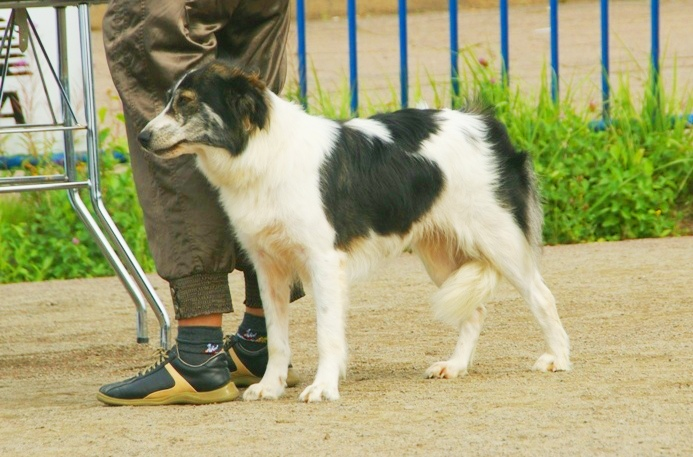 Atlas Mountain Dog or Aïdi. Most likely representing the colour "fawn with black overlay/mantle and white markings".